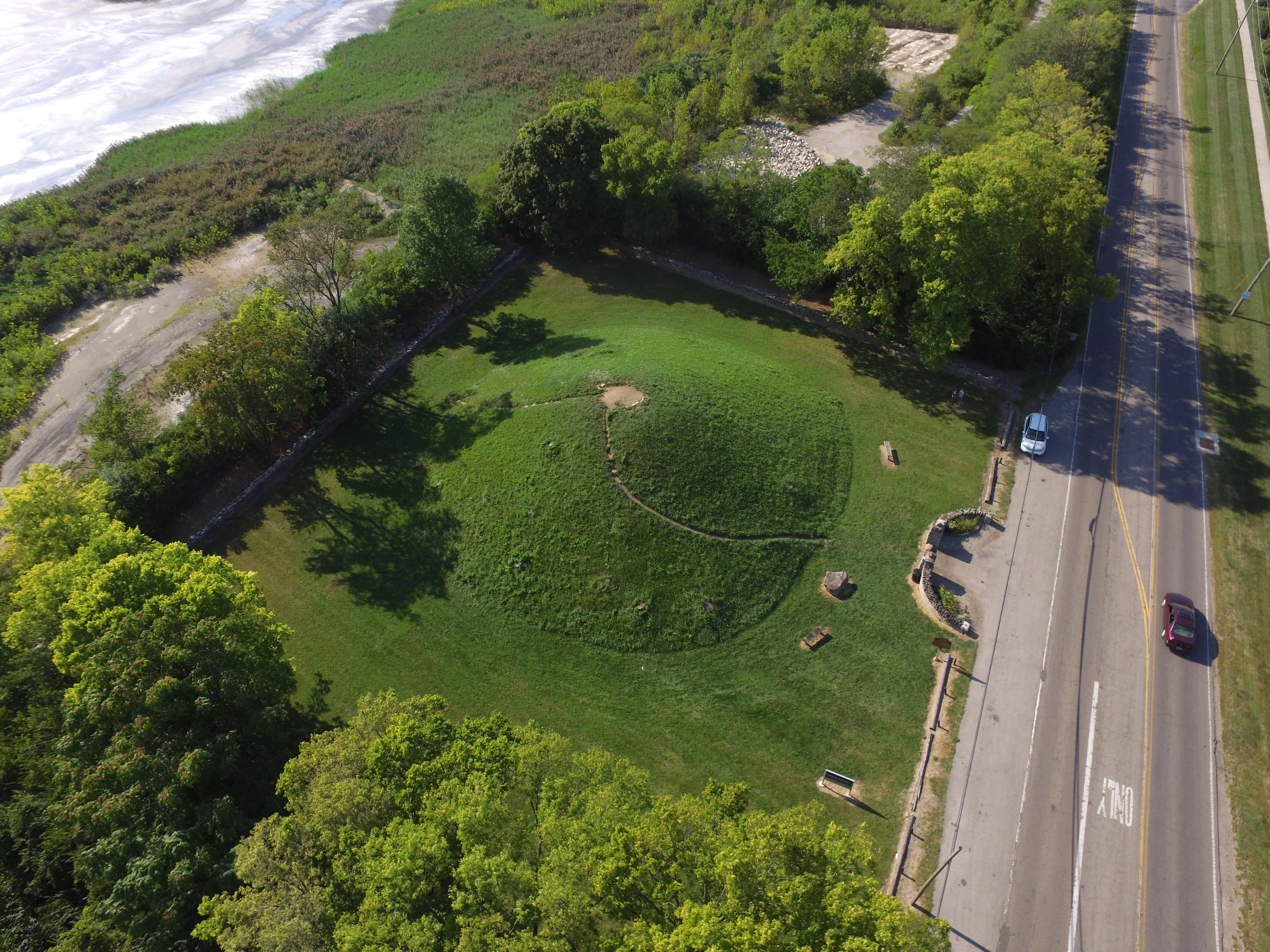 Shrum Mound in Columbus, Ohio, taken from the air with an unmanned aircraft system.